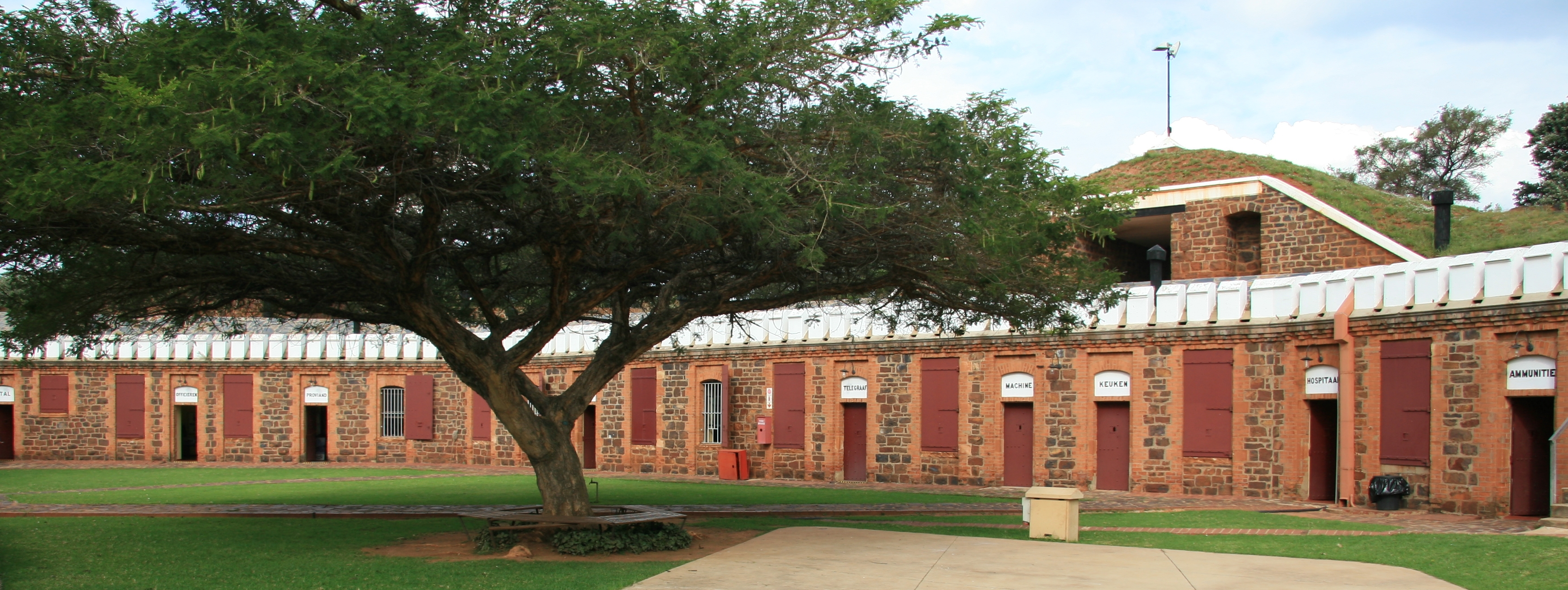 Fort Schanskop near Pretoria